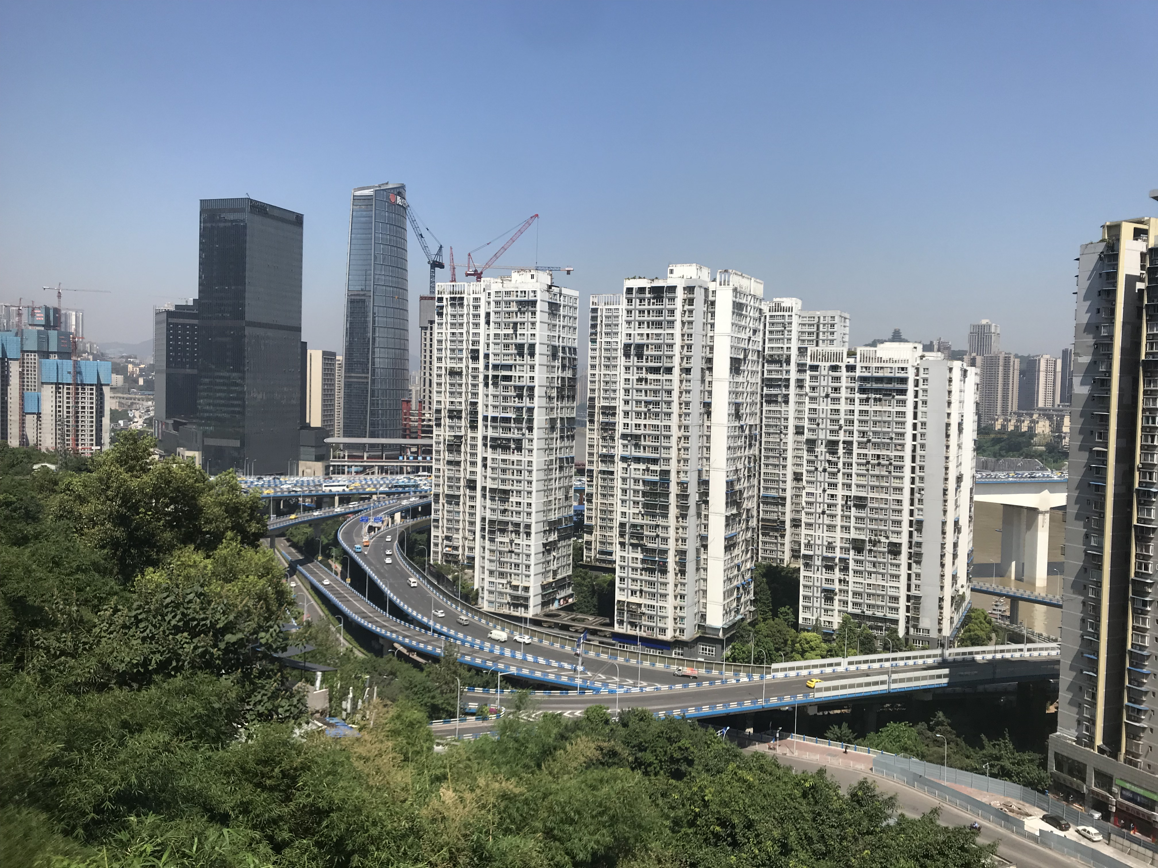 201908 Linjiang Jiayuan, Huacun, Chongqing